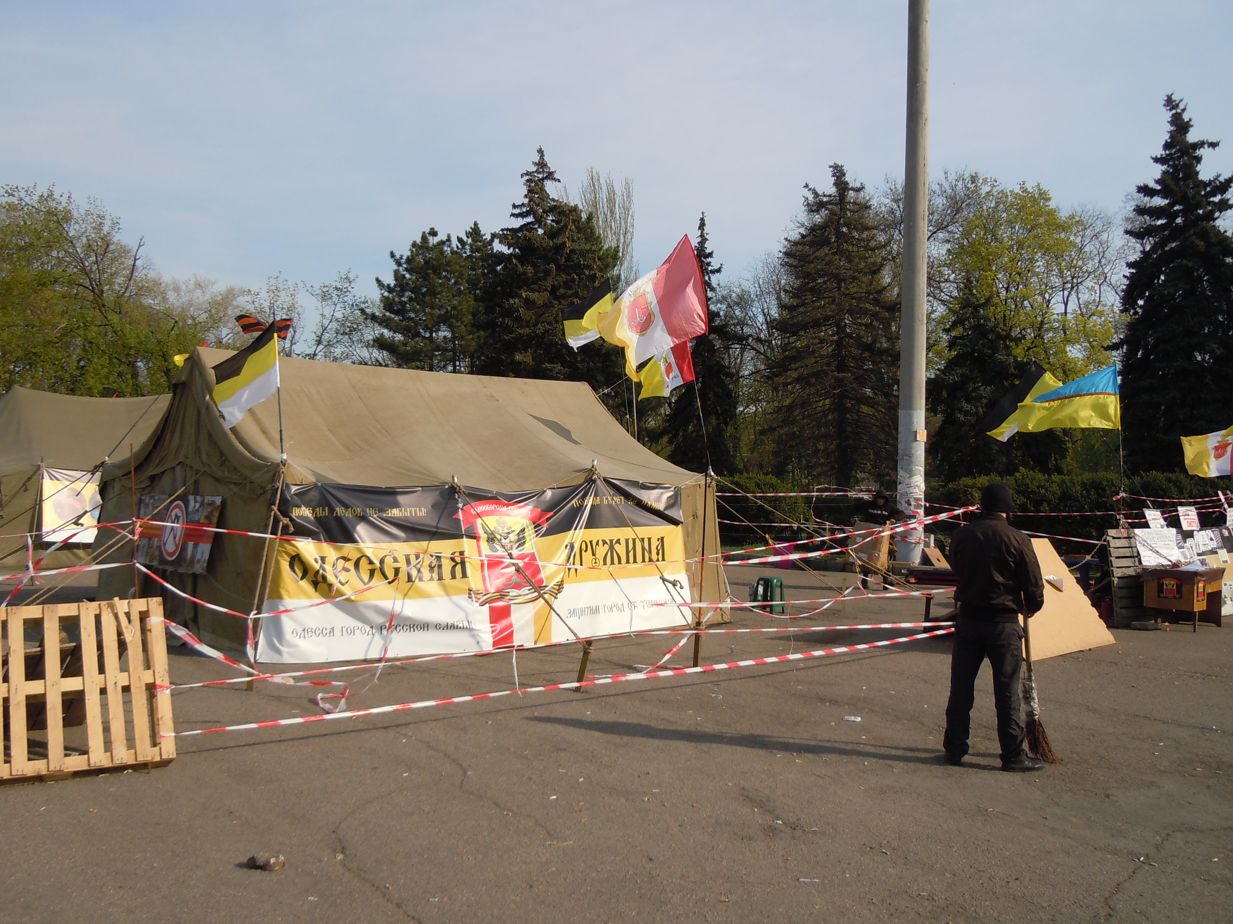 The tents encampment of Russian nationalists at the Kulikove Pole square in Odessa, Ukraine